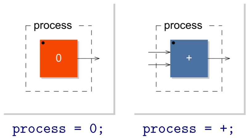 Some very simple Faust program.